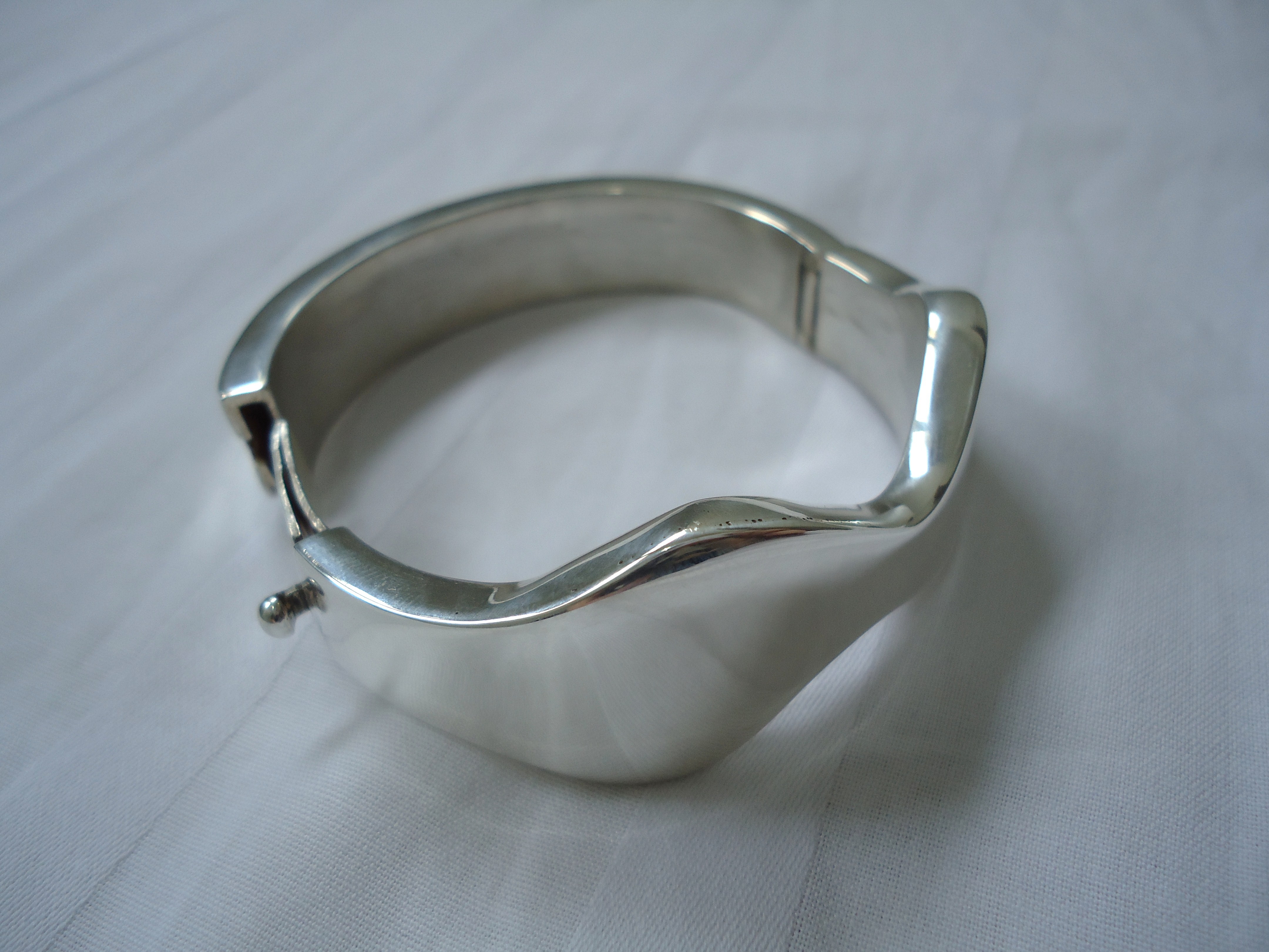 950-silver bracelet. Made by Mauro Cateb, Brazilian jeweler.